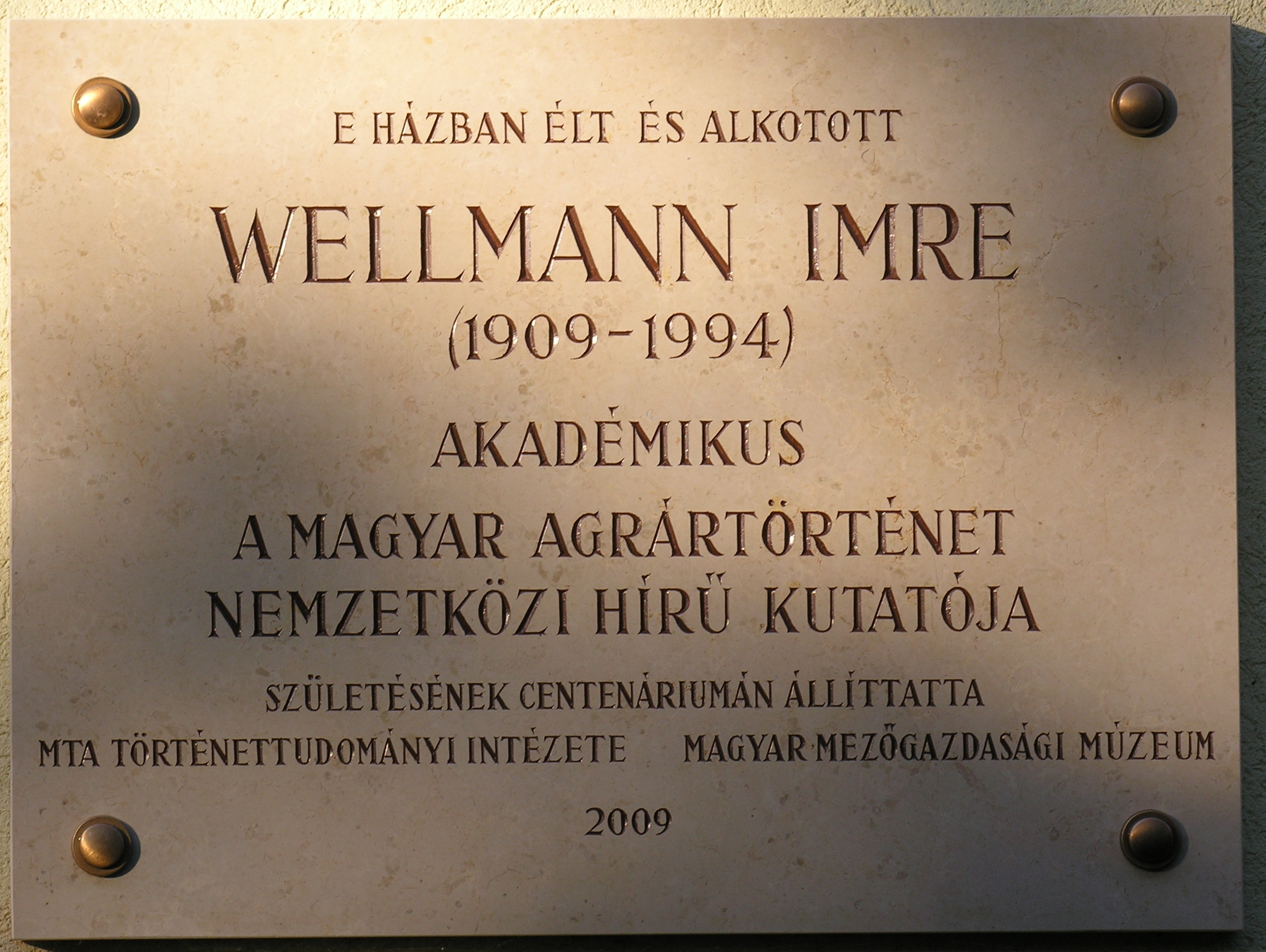 Imre Wellmann commemorative plaque in Budapest District II, Torockó Street No 12